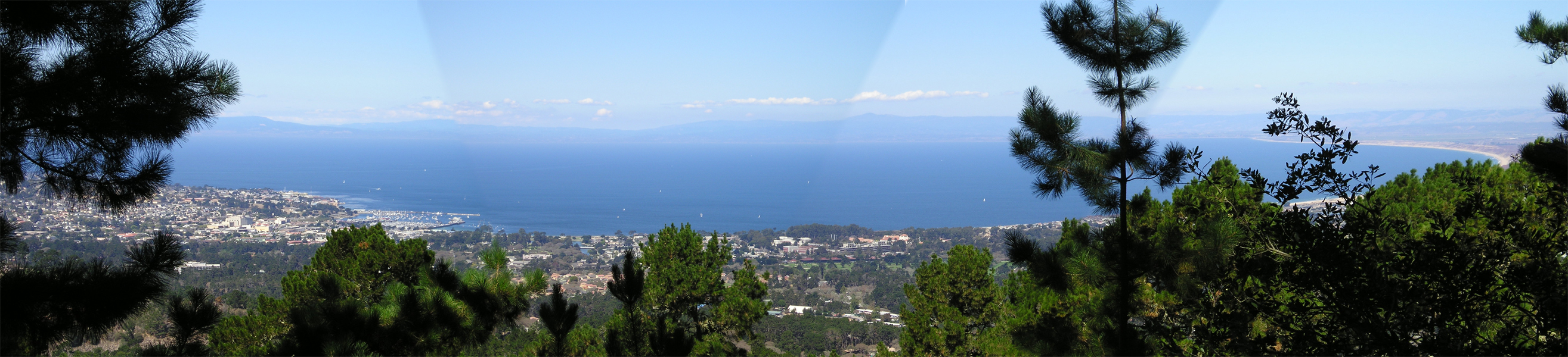 Monterey, California and Monterey Bay from Jacks Peak Park, with Monterey Pines in foreground.